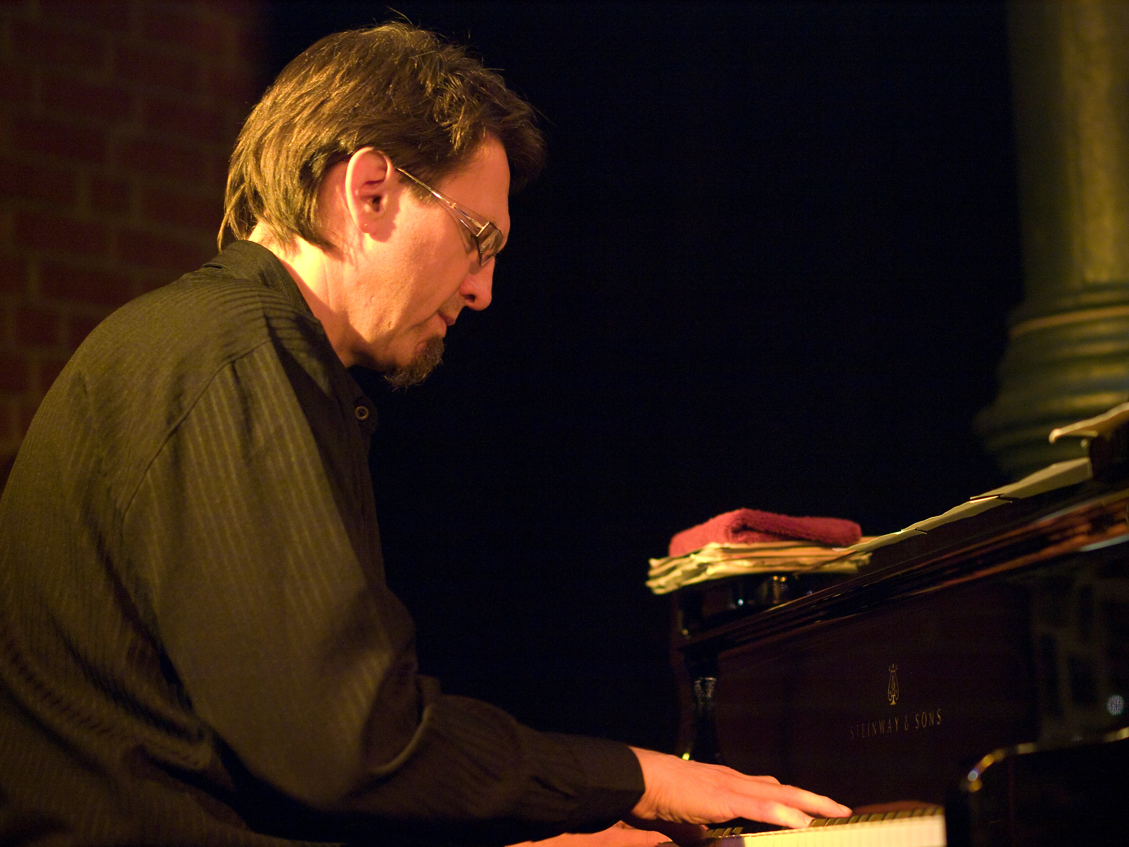 Peter Madsen, piano, picture taken in Jazz club "Unterfahrt" in Munich/Germany